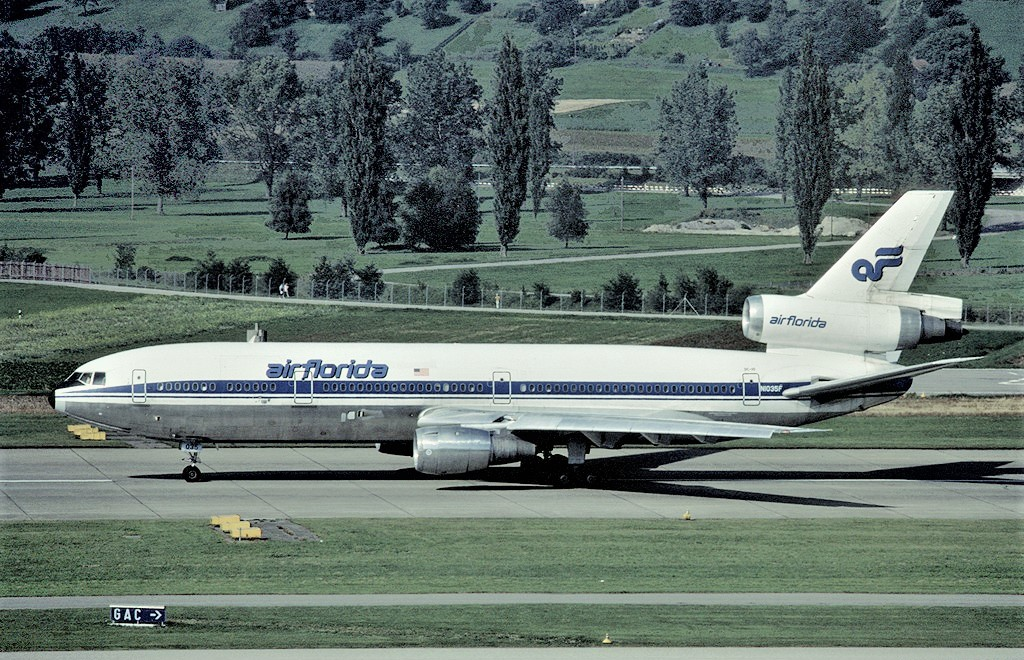 Air Florida, operated by Seaboard World Airlines, McDonnell Douglas DC-10-30CF N1035F at Zürich International Airport